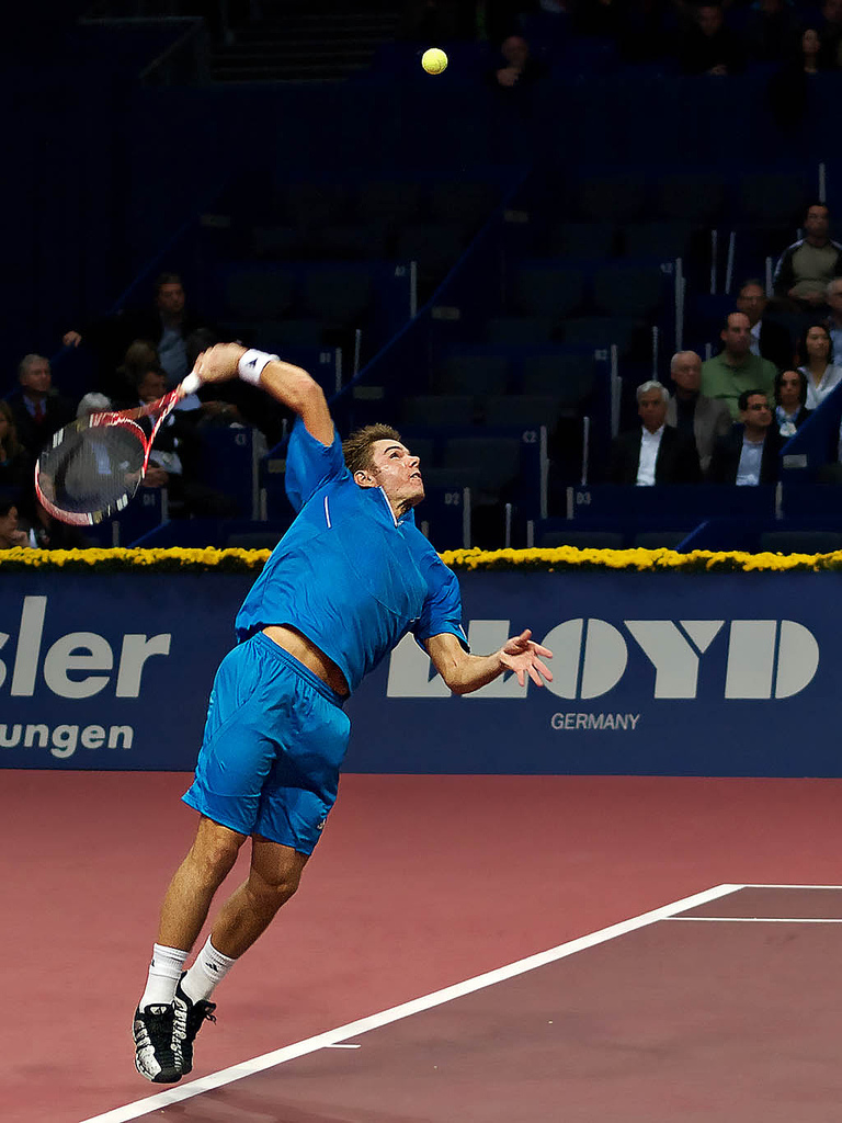 At the Davidoff Swiss Indoors in Basel, on 25 October 2007, playing against Tomas Berdych